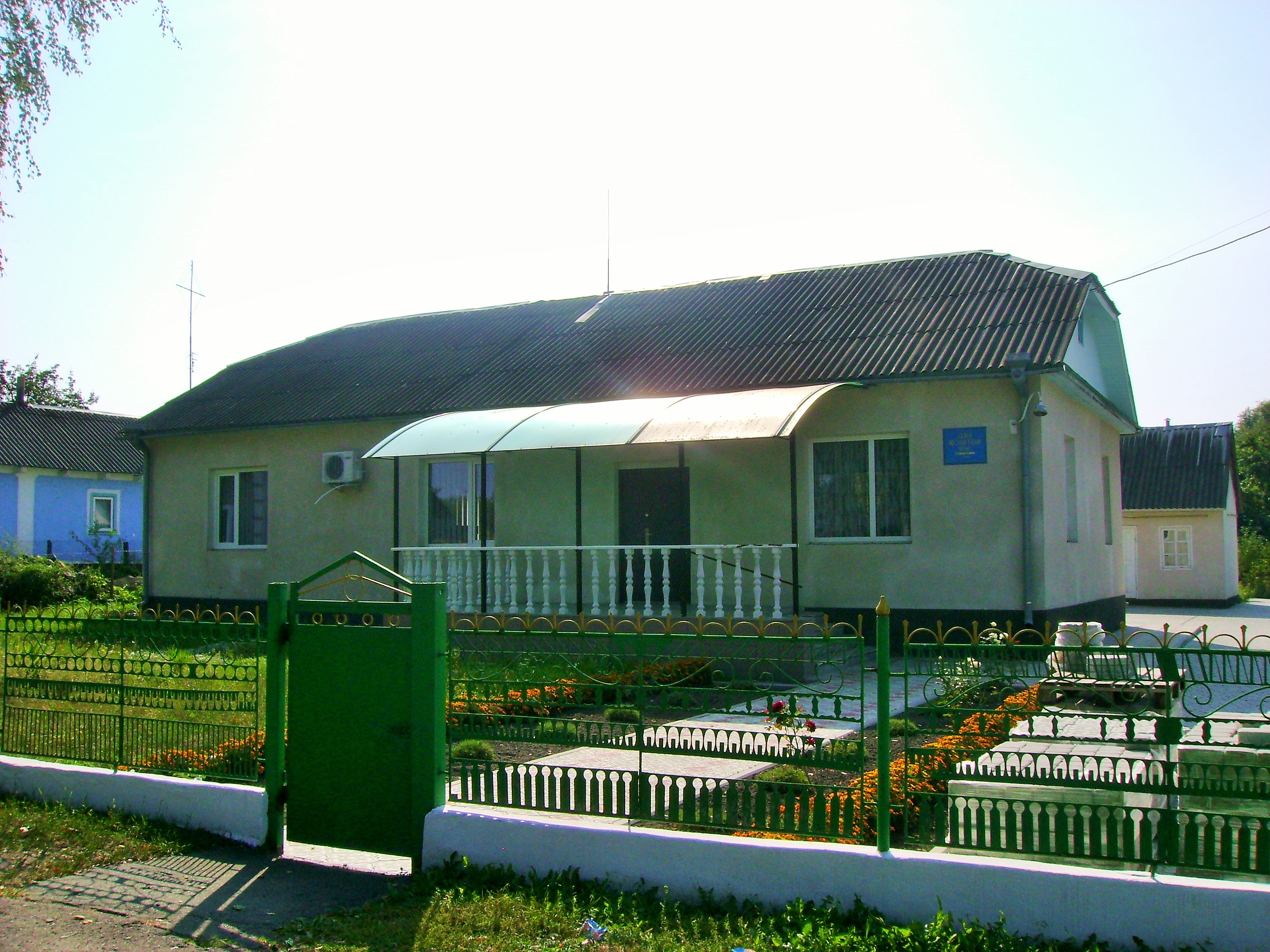 Молитовний будинок ХВЄ с.Верба